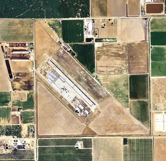 USGS digital orthophoto of Turlock Municipal Airport in California